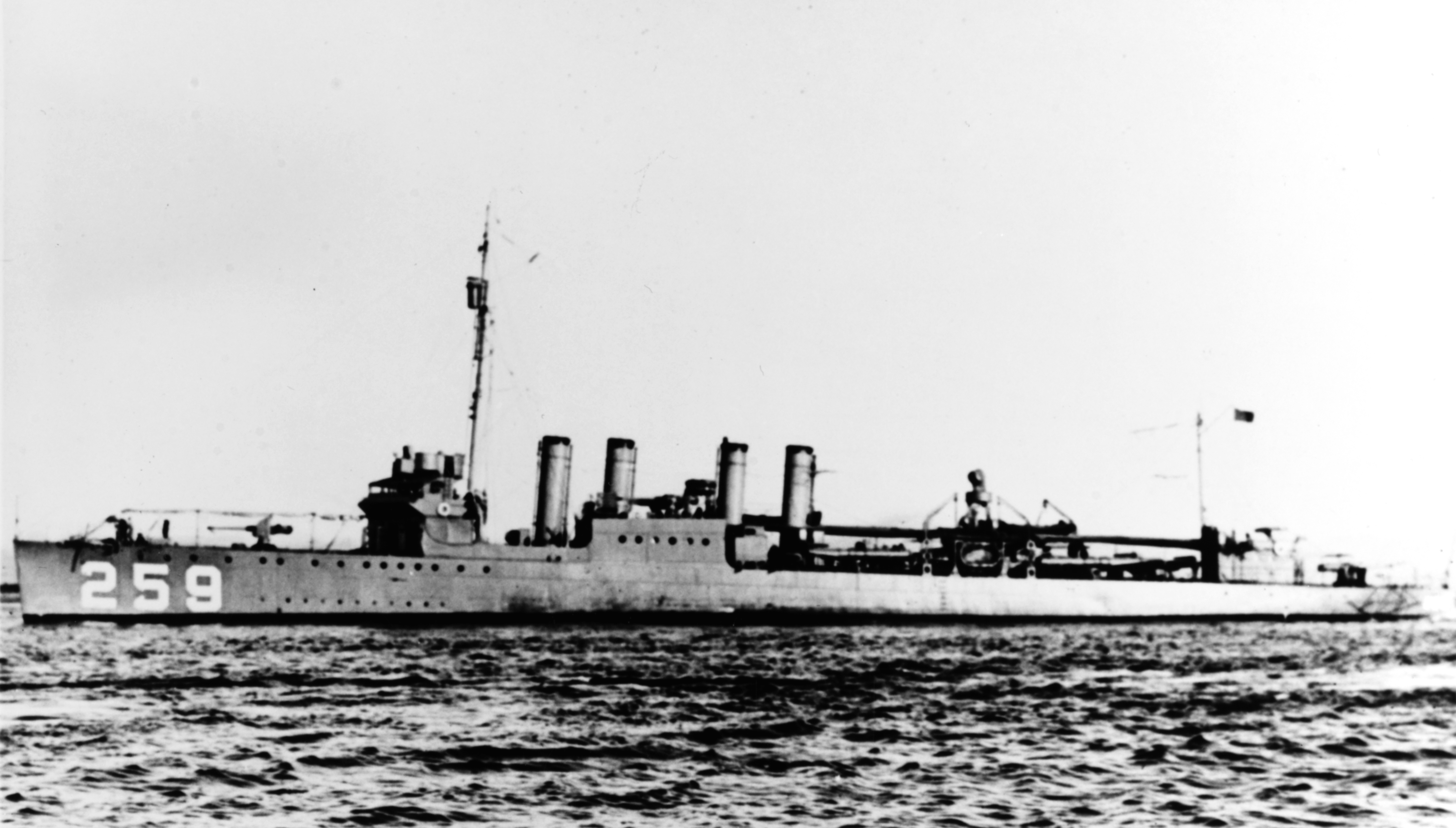 The U.S. Navy destroyer USS Turner (DD-259) photographed circa 1919-1921.